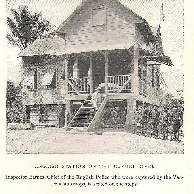 Inspector Barnes, Chief of the English Police Who Were Captued by the Venezuelan Troops, is seaated on the steps